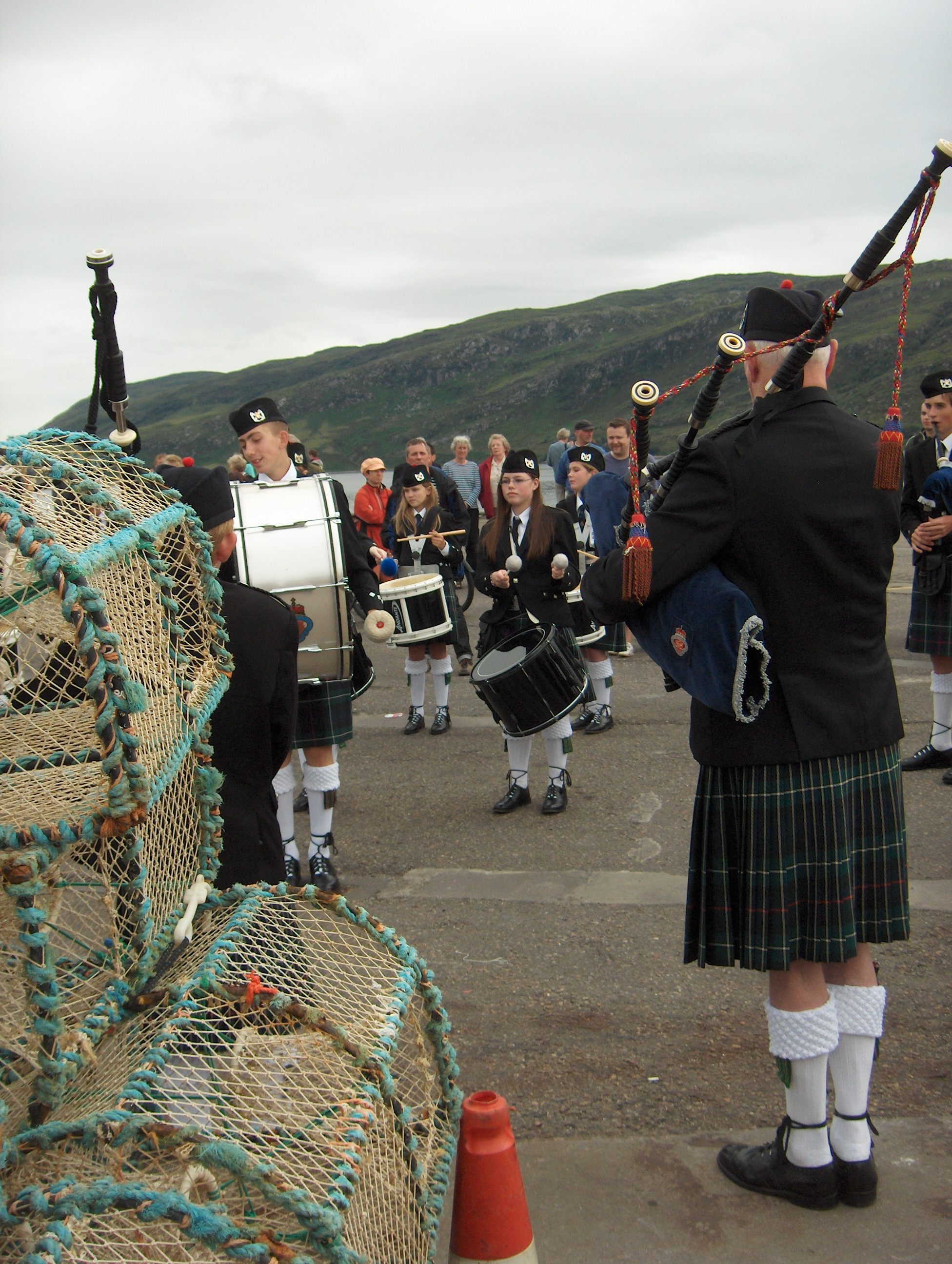 Pipes & Drums in Ullapool (Scotland).